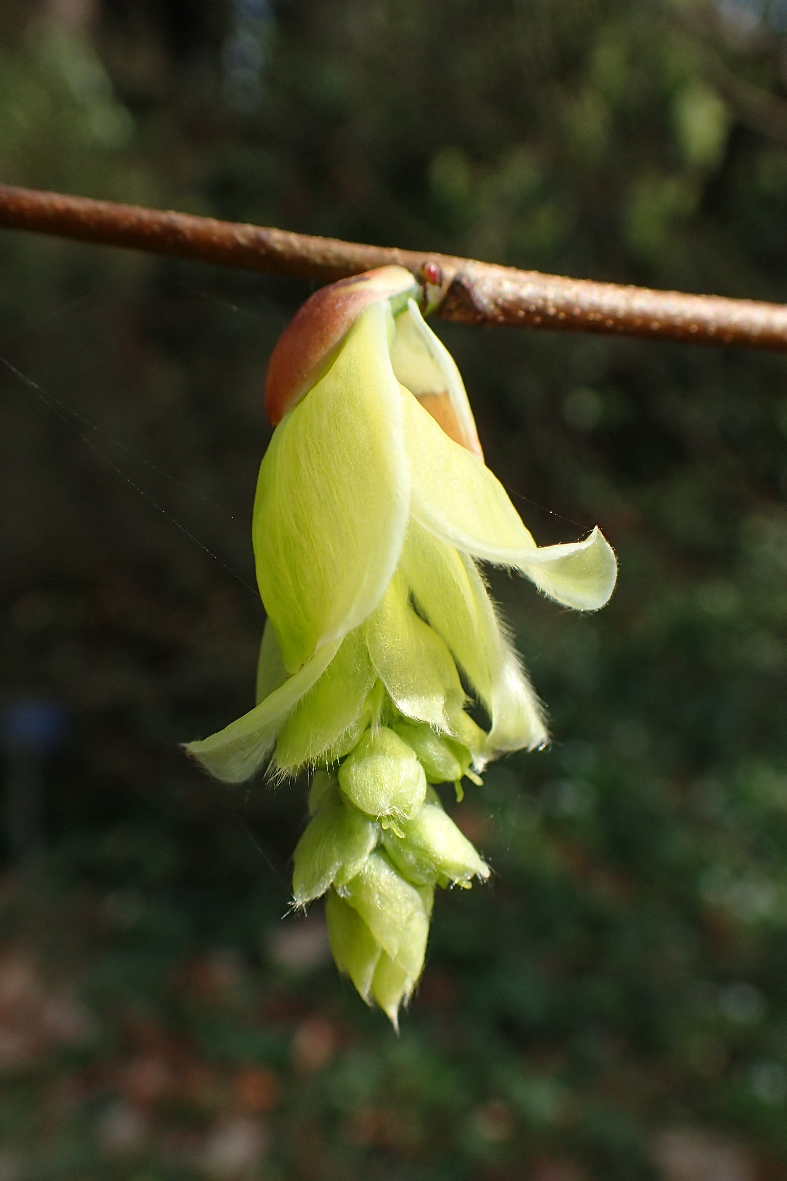 Corylopsis sinensis var. sinensis in Arboretum Rogów (Poland)